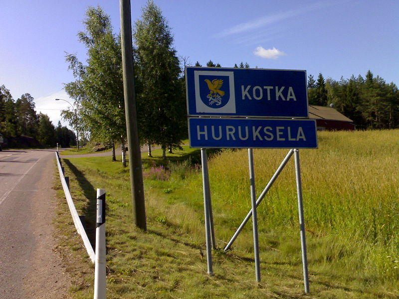 Regional road 357 in Huruksela, border of Kotka, Finland